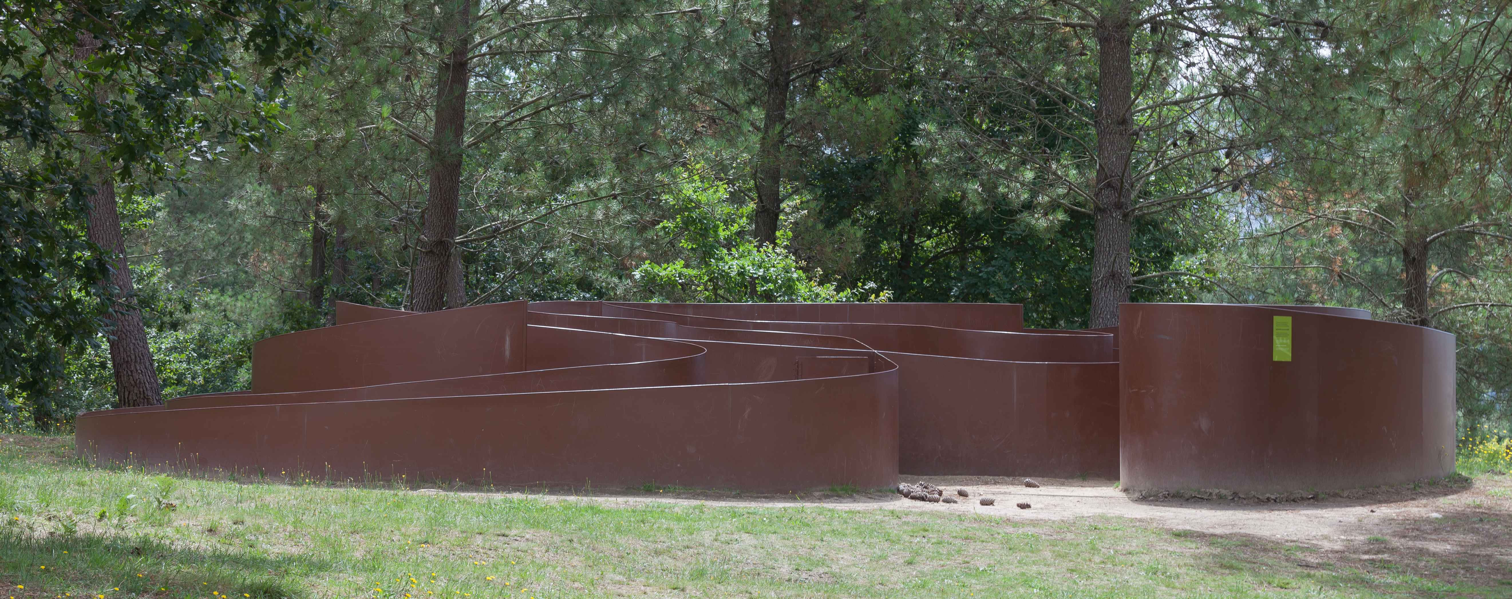 Labyrinth, Archaeological park of Campo Lameiro, Galicia (Spain)